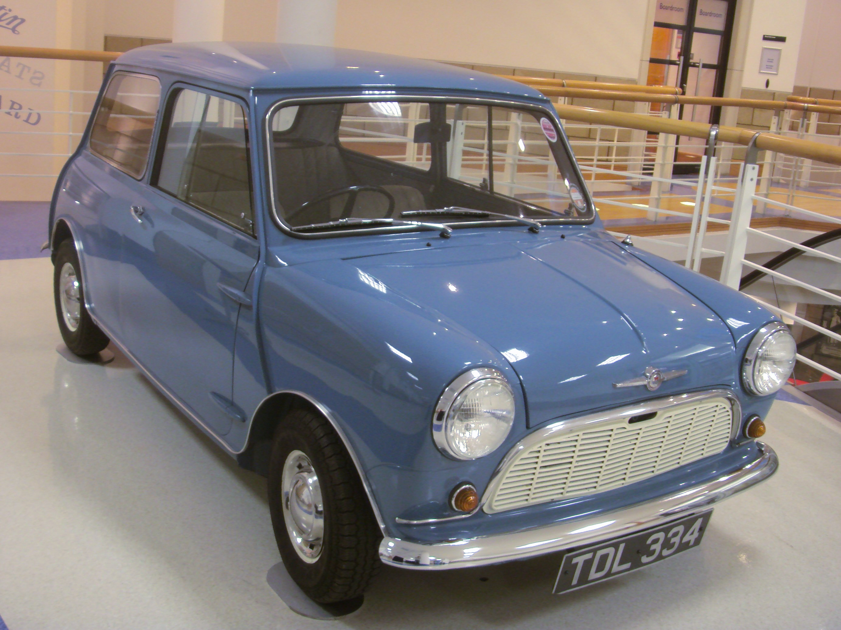 Believed to be the first Morris Mini on the Isle of Wight